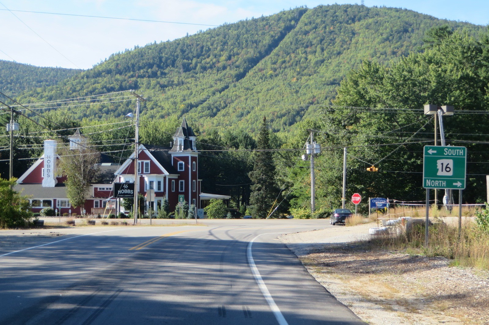 View of West Ossipee, New Hampshire, with Nickerson Mountain in background